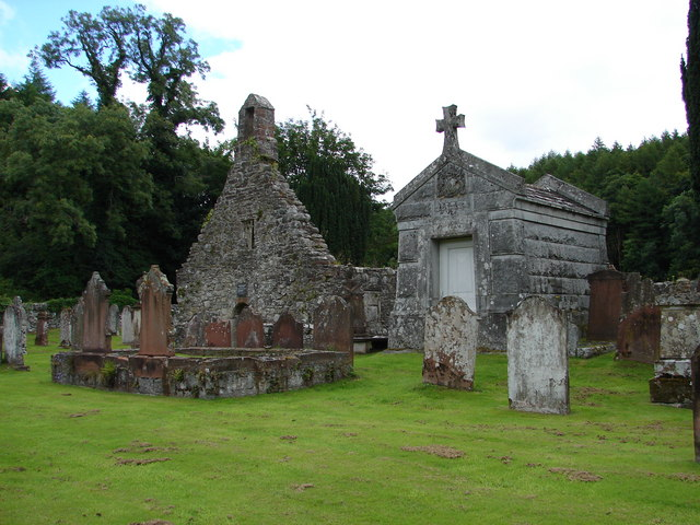 Anwoth Old Kirk & Kirkyard The old kirk ruins (1626) retains a medieval bell and has a Samuel Rutherford plague over the doorway. Interesting gravestones include table stones and a cross-slab. The 2.4m/7.9ft high granite Gordon mausoleum was built 1878.